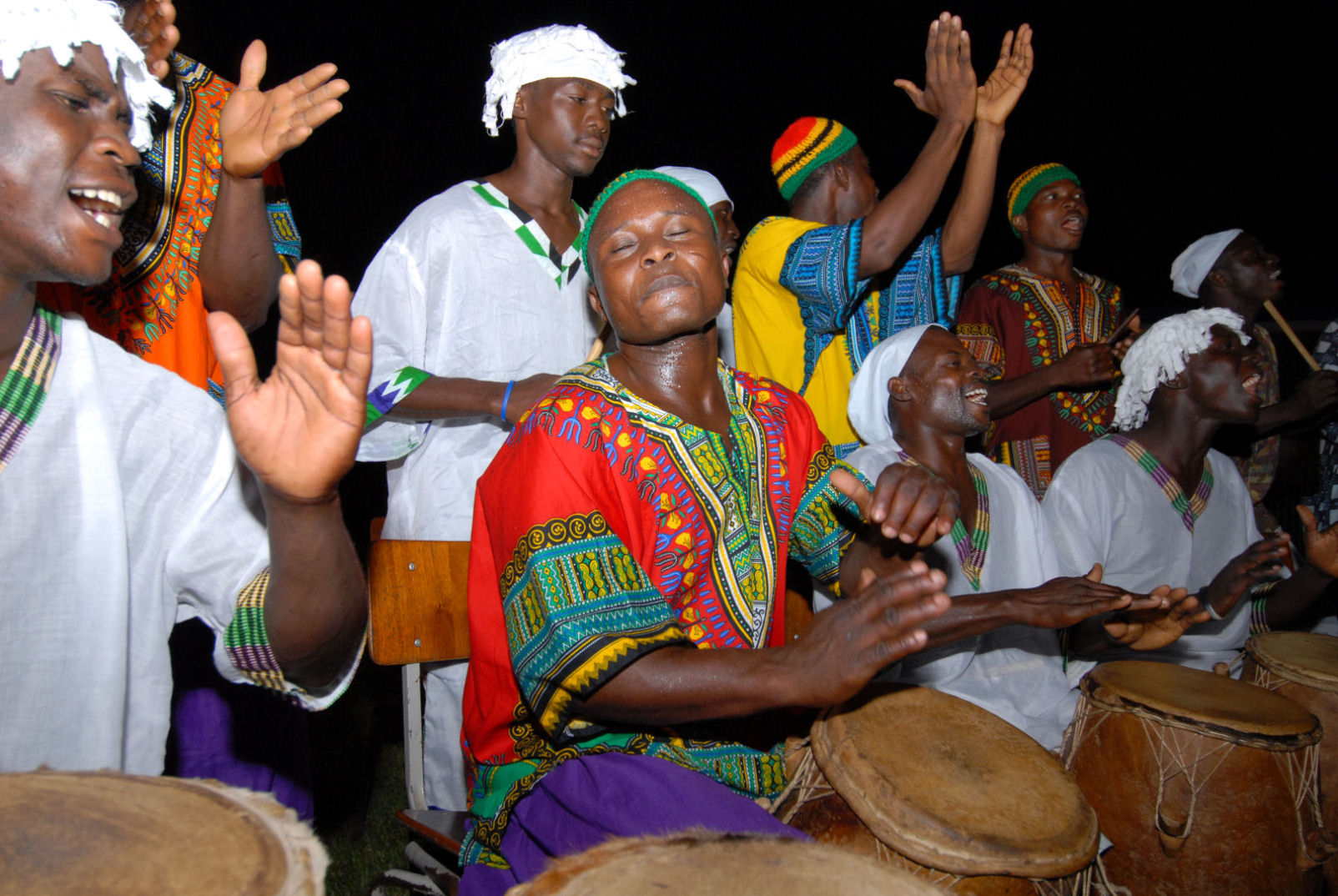 A group of drummers in Accra, Ghana